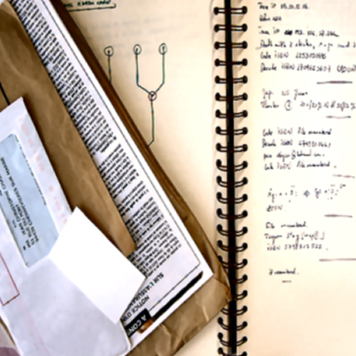 Personal work, for Newsletter n° 1.